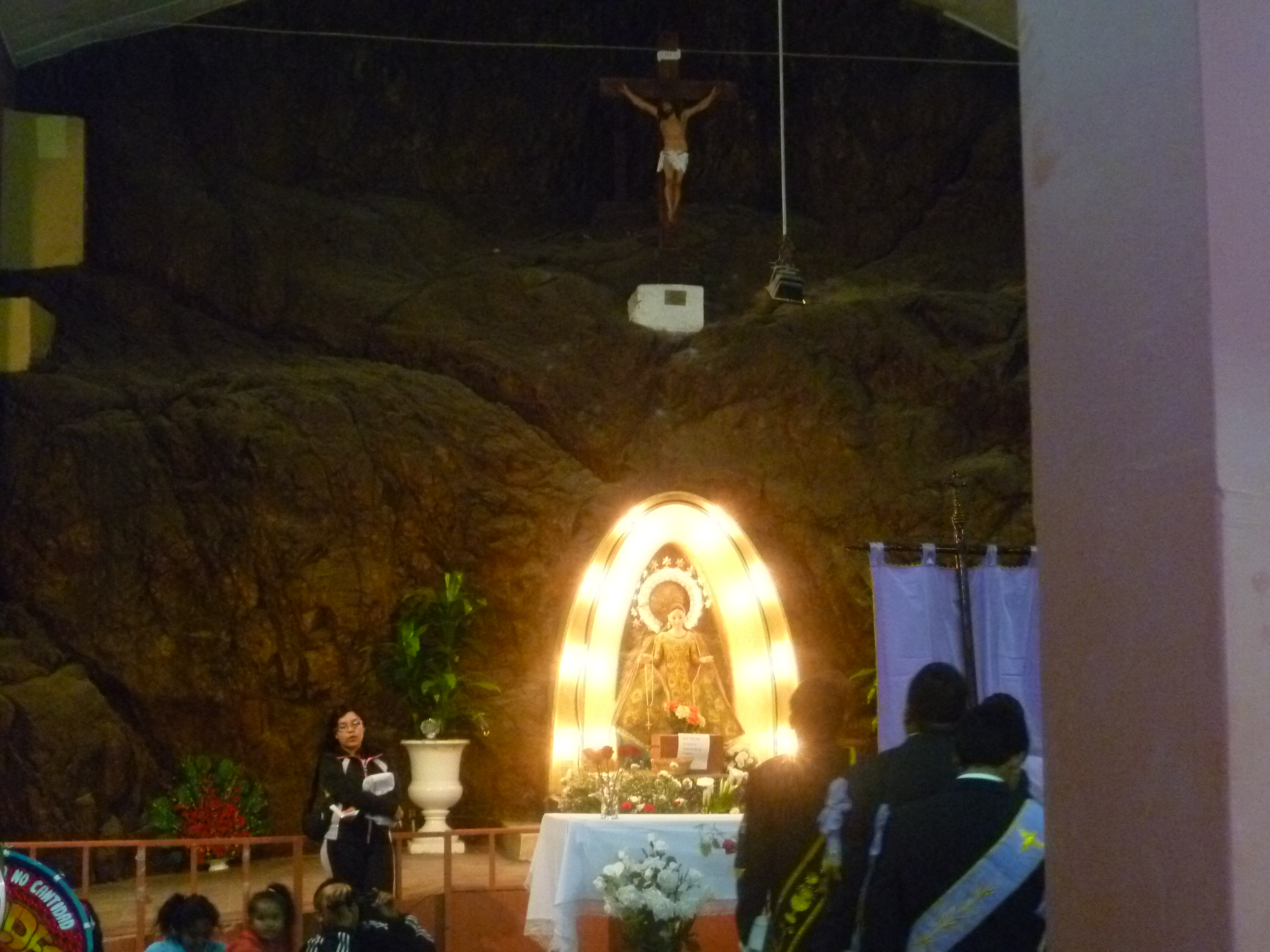 Festividad Virgen de Las Peñas, Livilcar - Arica